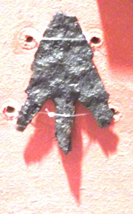 Iron arrowhead, made 1200 - 1250 AD, found in Kempston and on display in Bedford Museum.